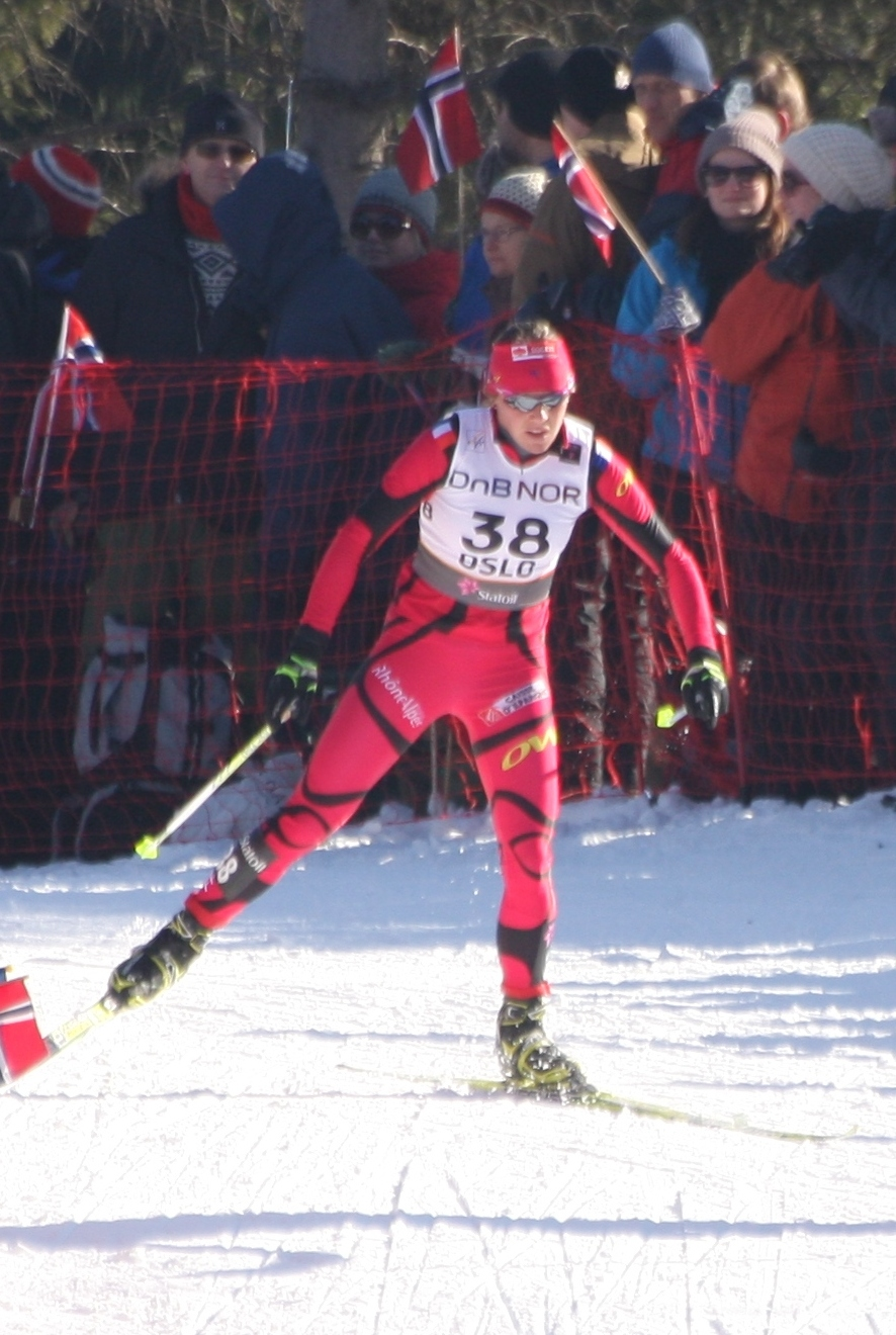 Celia Bourgeois (France) at 17 km in the women's 30 km, World Championships, Oslo 2011.